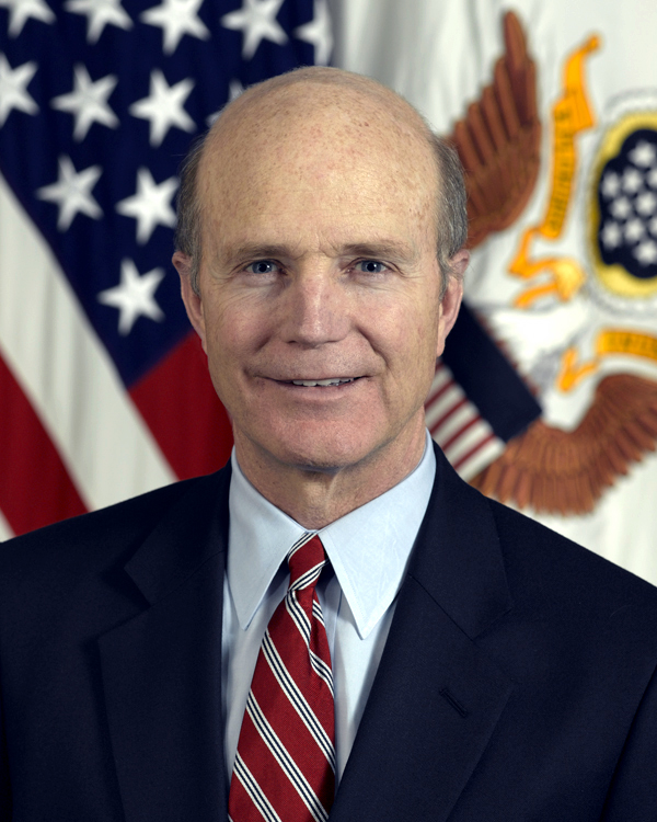 Pete Geren, Undersecretary of the U.S. Army and former Acting Secretary of the Air Force.